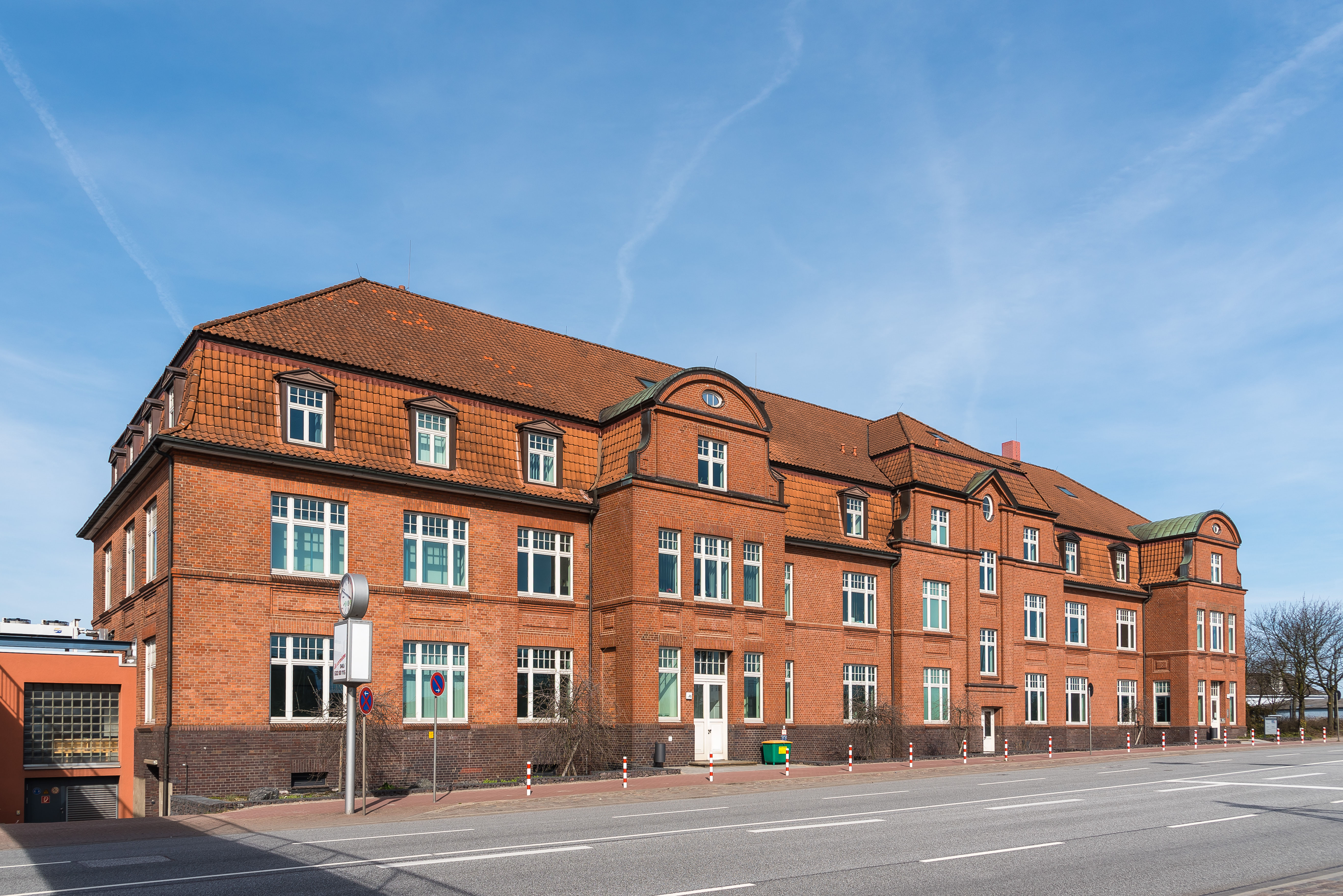 Administrative building of the Hamburg port railroad next to the Hamburg-Süd station on Veddeler Damm 14 in the Kleiner Grasbrook district of Hamburg. It houses several departments of the railroad administration as well as other parts of the Hamburg Port Authority to which the railroad belongs. The building, a former office of the customs authorities, was built around 1925 and is a registered cultural heritage monument. This is a photograph of an architectural monument.